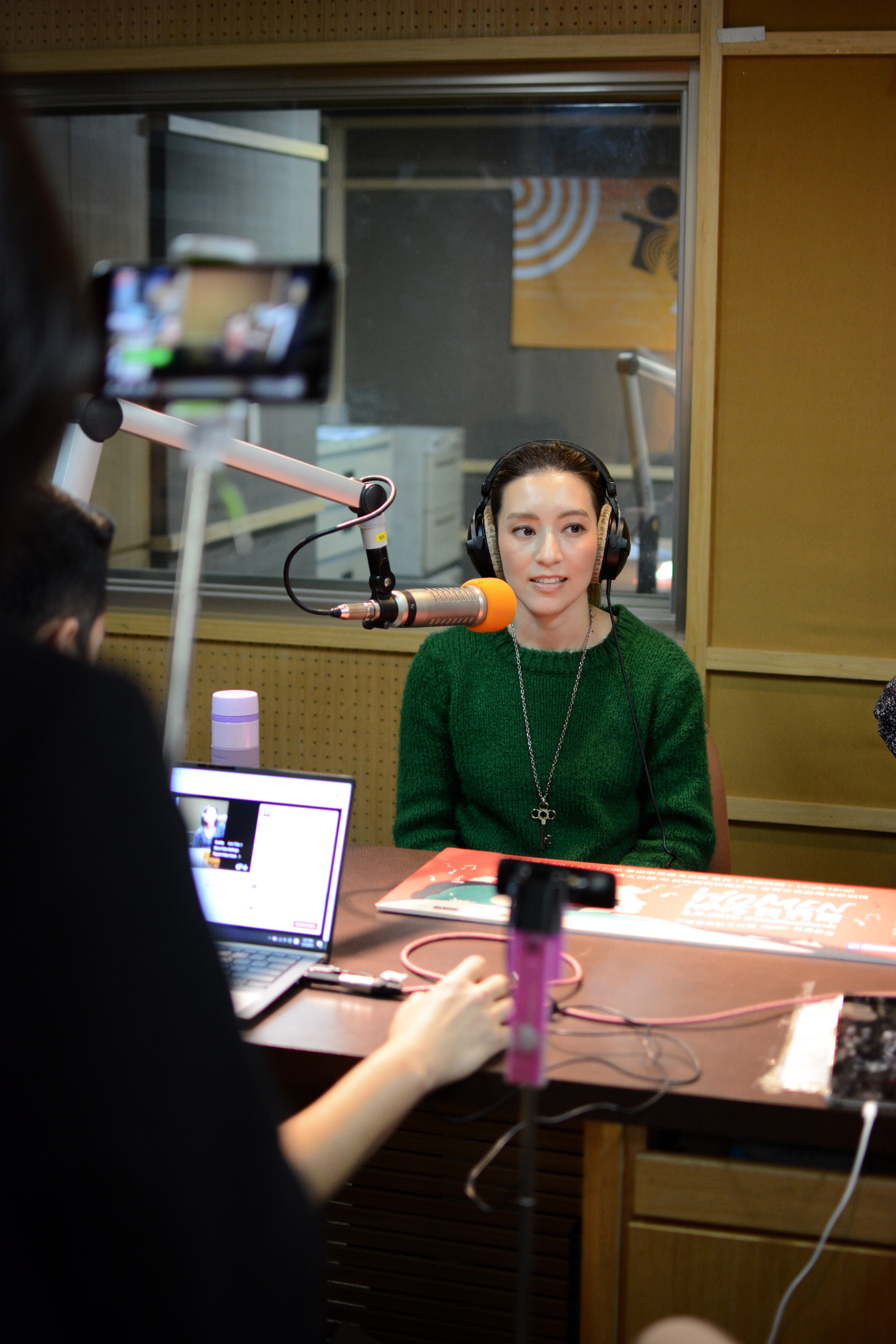 Lara Veronin at ICRT in 2019 speaking with sister Esther Veronin on Meimeiwawa's involvement in the 3/9 Women's March Taiwan Chapter event.